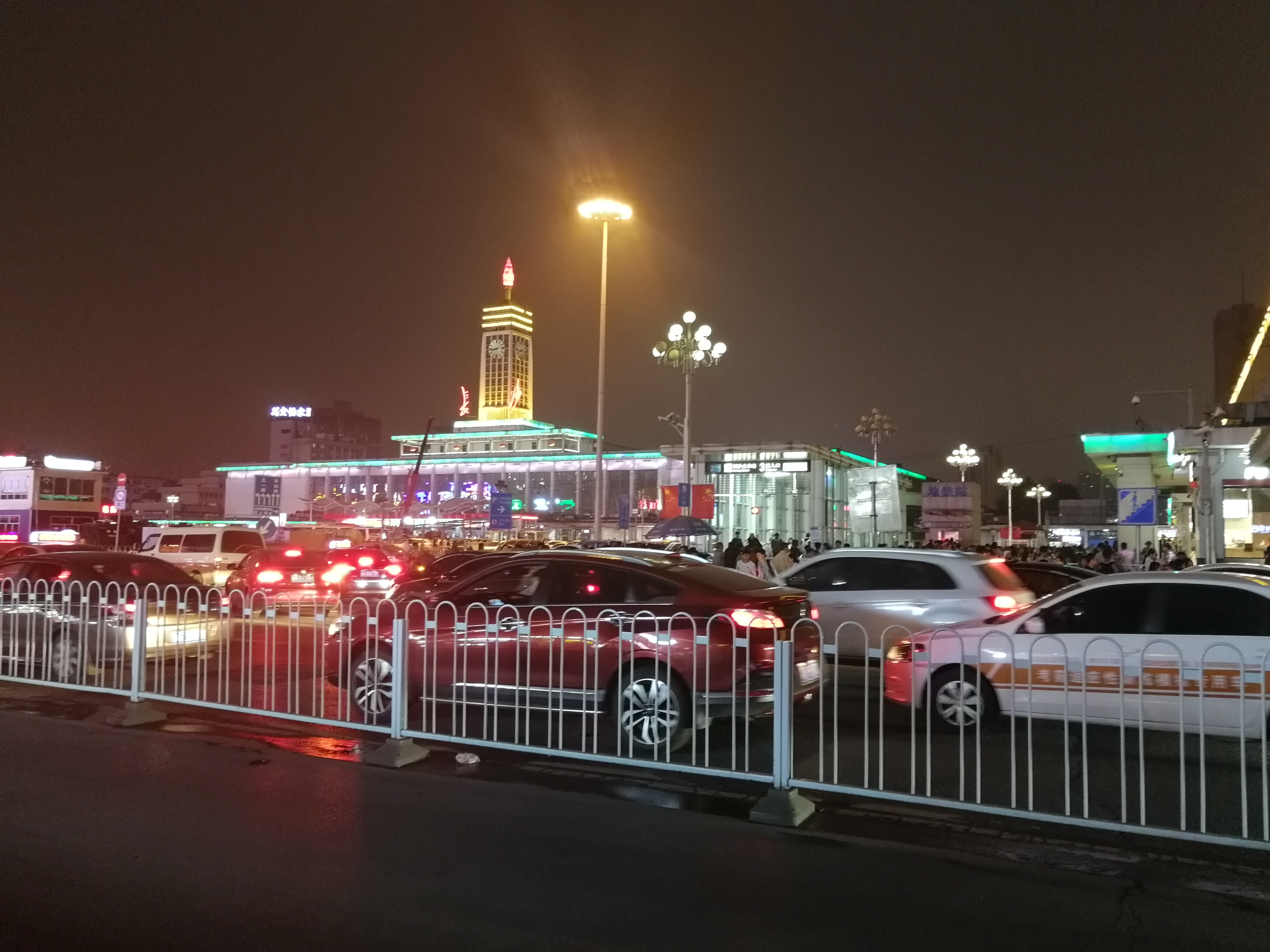 Railway Station at night (Line 2)